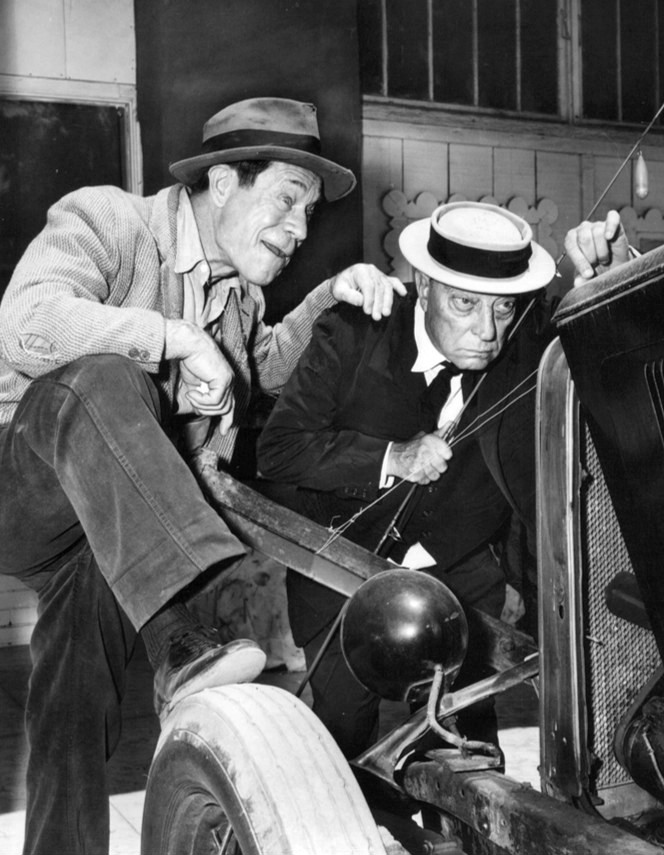 Publicity photo of comedians Buster Keaton and Joe E. Brown in an episode from the television program Route 66.